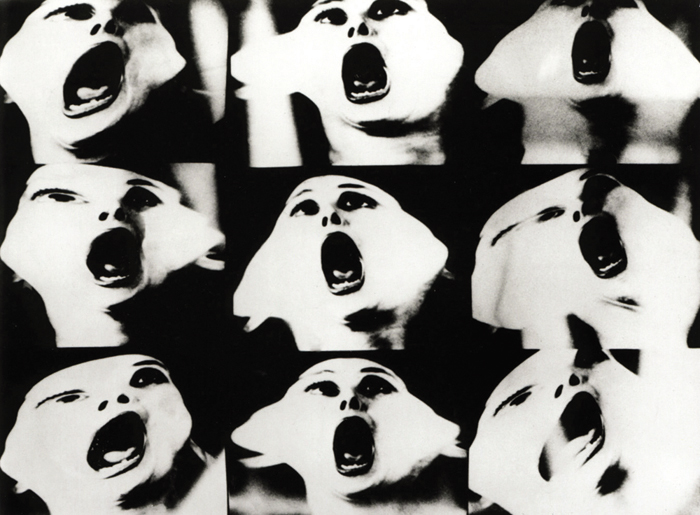 Transformations I 1976. Printed in 2009 Inkjet print on archival paper, 48 x 33cm